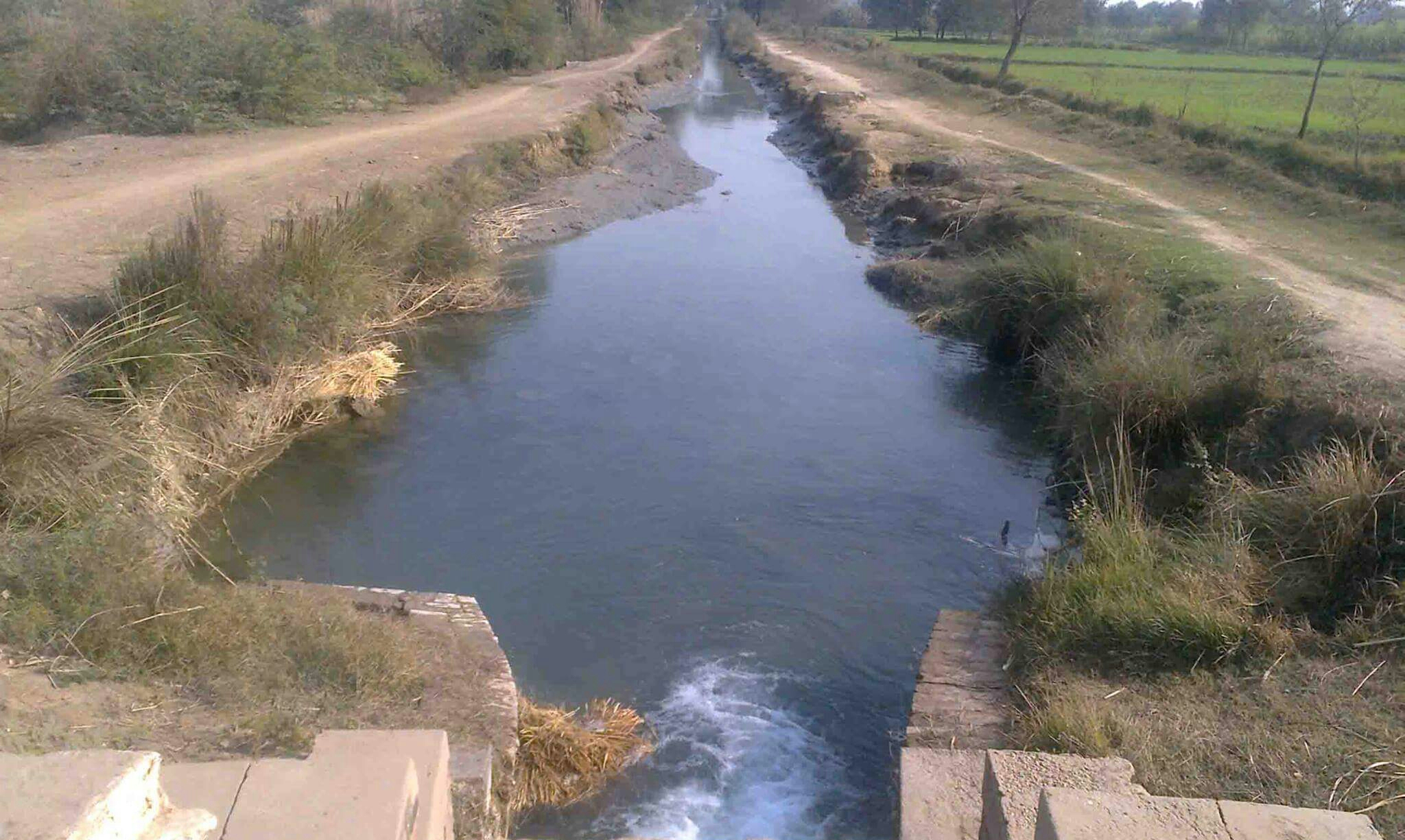 I also Uploaded this Photo on Botala Facebook Page & on website